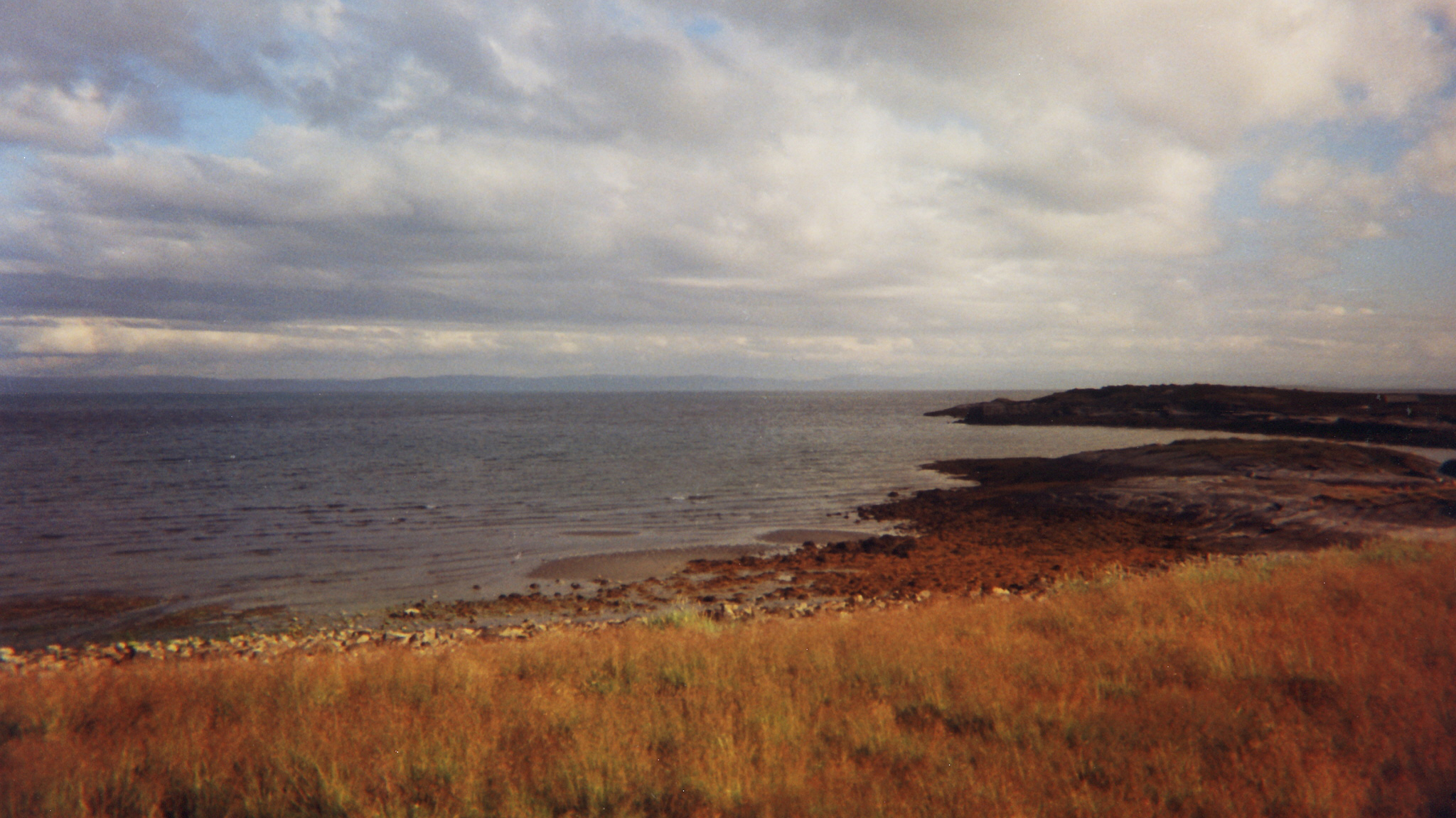 Porsangerfjord in Northern Norway